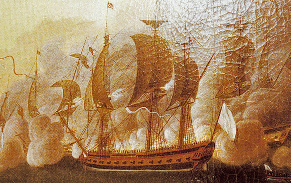 An image of the French frigate Astrée (not Hermione as previously written) in combat by Auguste Louis de Rossel de Cercy.